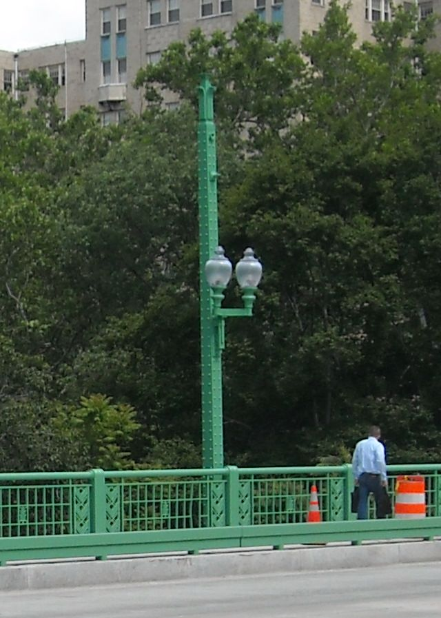 The Connecticut Avenue Bridge over Klingle Valley in Northwest Washington, D.C. The bridge is listed on the National Register of Historic Places.